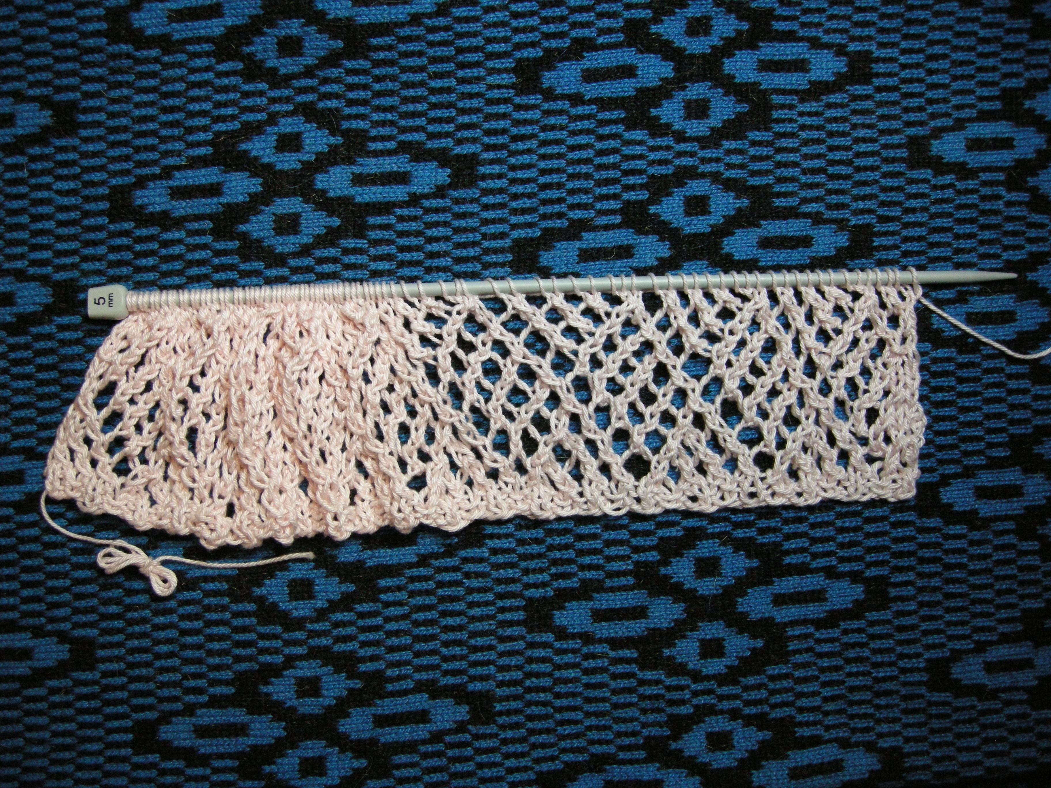 An example of faggoting. Faggoting is a variation of lace knitting, in which every row is a lace row, and there are no simple all-knit or all-purl rows. This example is the stitch pattern of the garment design "Blithe" by designer Marie Wallin, from Rowan Magazine number 47 (February, 2010). Note: Faggoting is a certain type of knitting stitch, not a motif. A knitting motif is not a stitch; it is a (usually repeated) picture or design perceived by the eye after the knitting is completed. There are knitting motifs in the blue knitted jacquard background, but not in the unfinished knitting in the foreground.